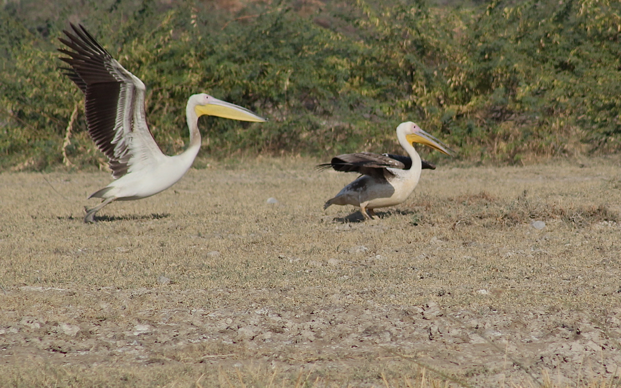 Zainabad, Little Rann, Gujarat. Dec '14. Rann of Kutch